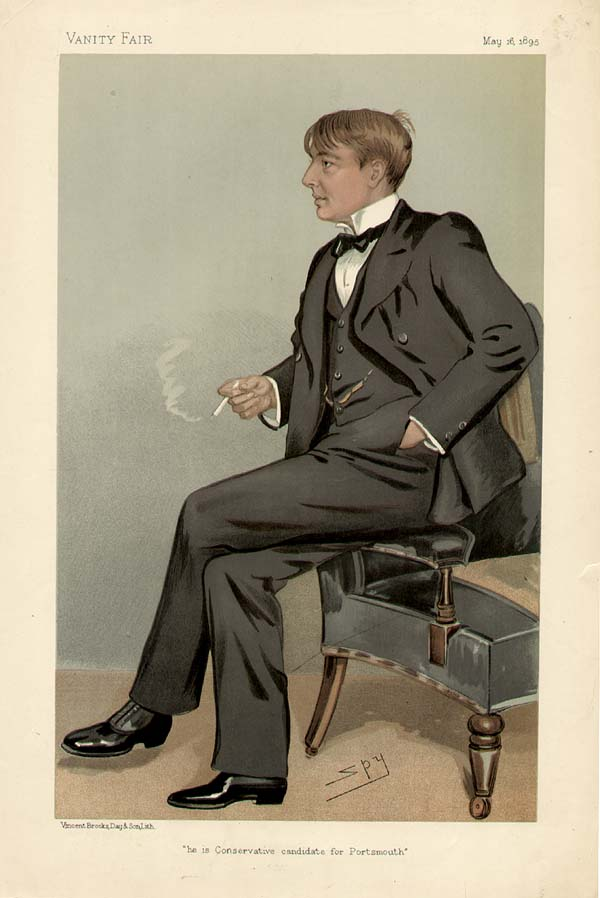 Men of the Day No.620: Caricature of Mr ACW Harmsworth. Caption reads: "he is Conservative candidate for Portsmouth"